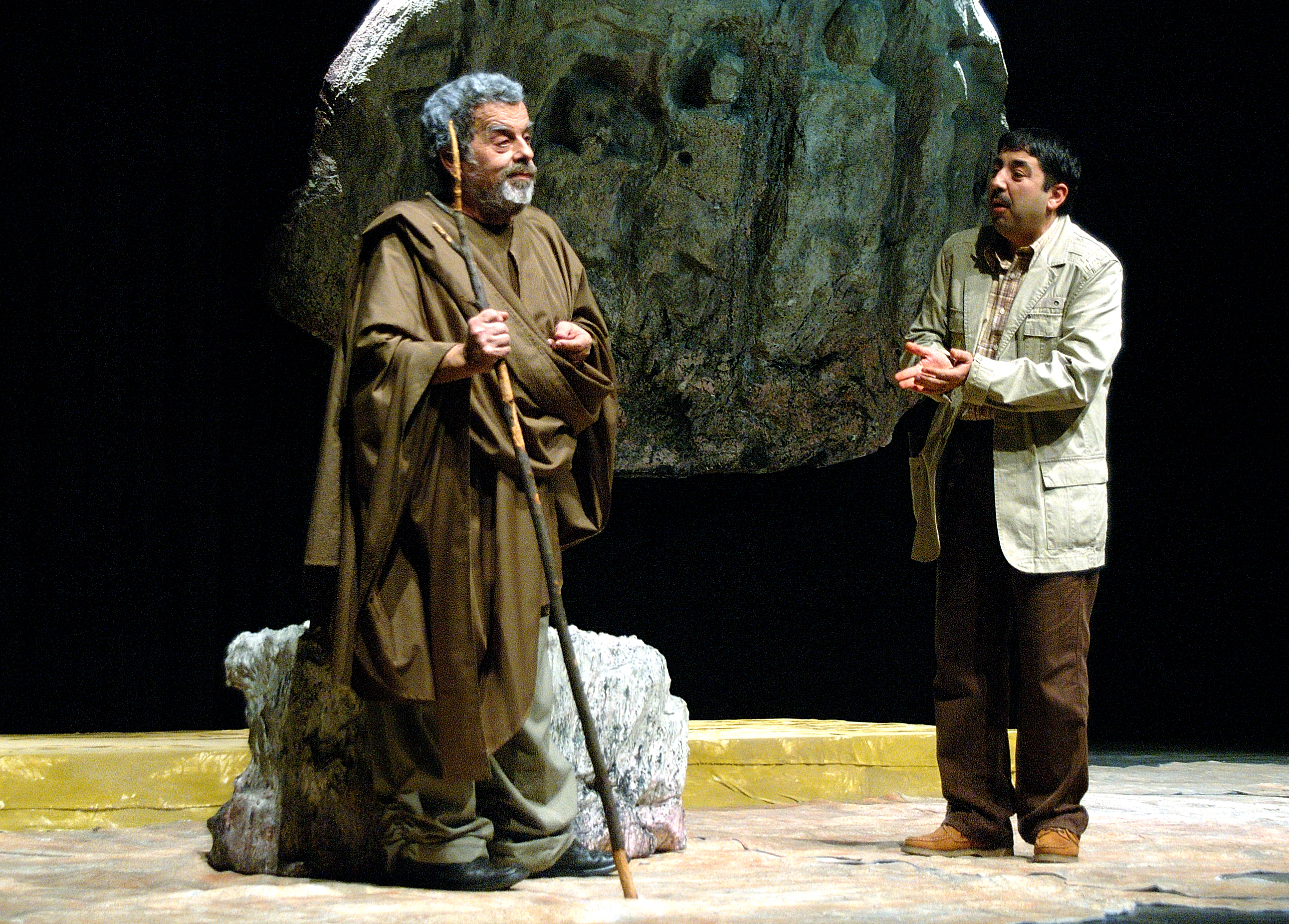 A theatre play directed by Lebanese playwright Jalal Khoury in 2006. Template:صورة من مسرحية الطريق إلى قانا عام 2006 للمخرج اللبناني جلال خوري.